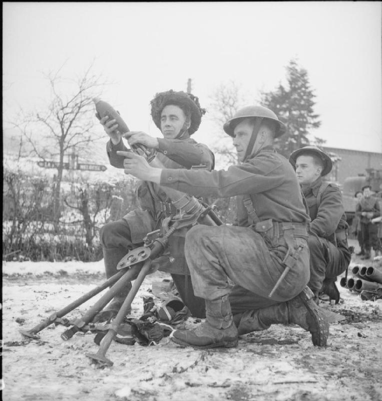 The British Army in North-west Europe 1944-45 3-inch mortar team of 2nd Monmouthshire Regiment in action during the advance of 53rd (Welsh) Division towards Laroche in Belgium, 5 January 1945.